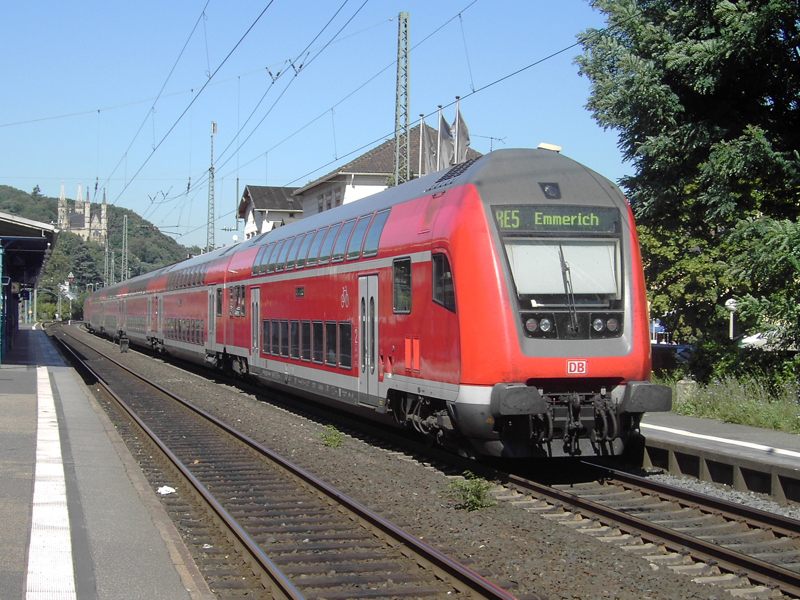 Double decker train operated by DB Regio NRW